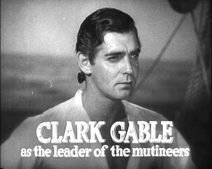 Clark Gable as Fletcher Christian in a screenshot from the trailer for the film Mutiny on the Bounty.